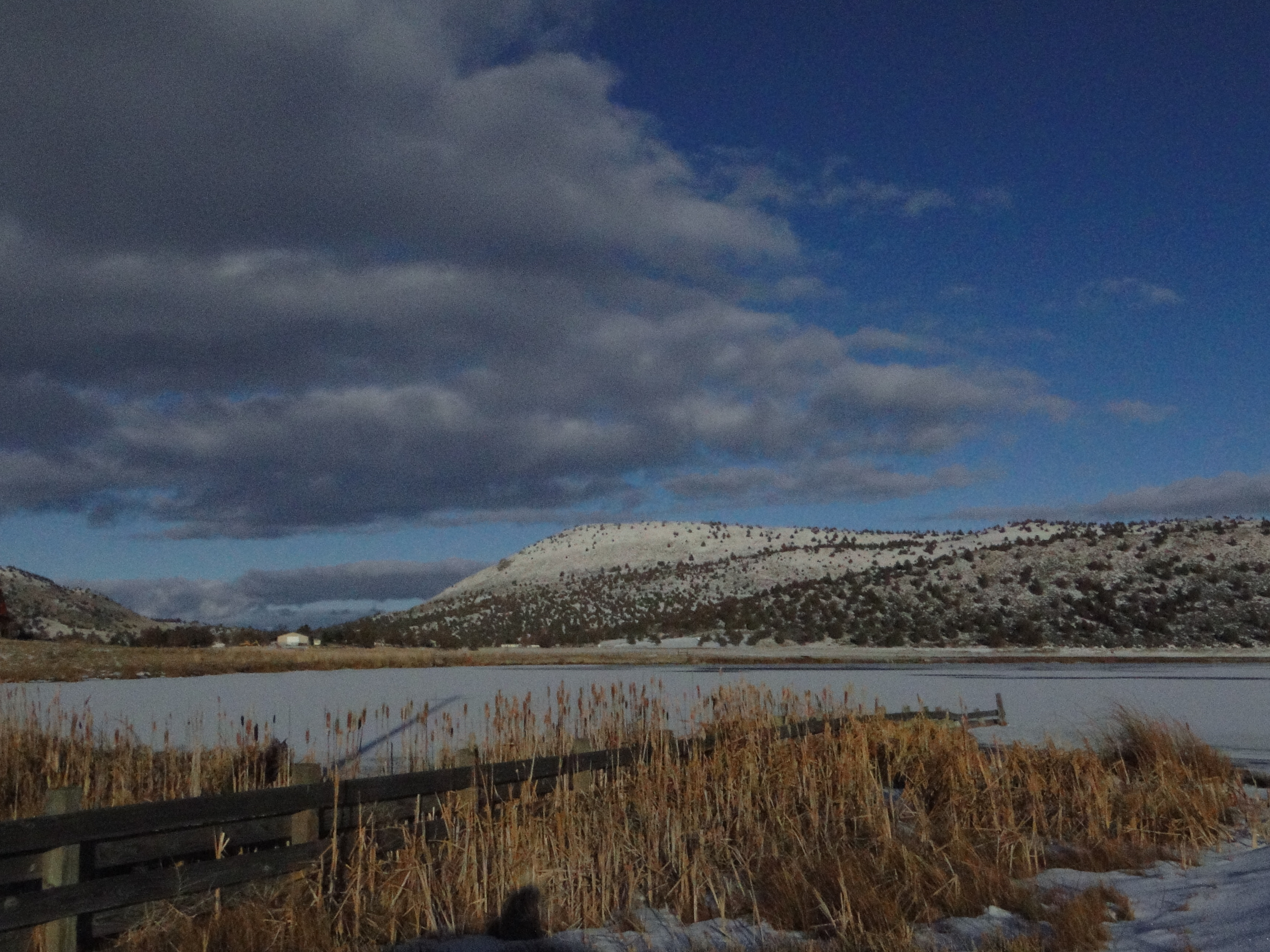 East shore of Lake Nuss with North-East ridge of Stukel Mountain in the background